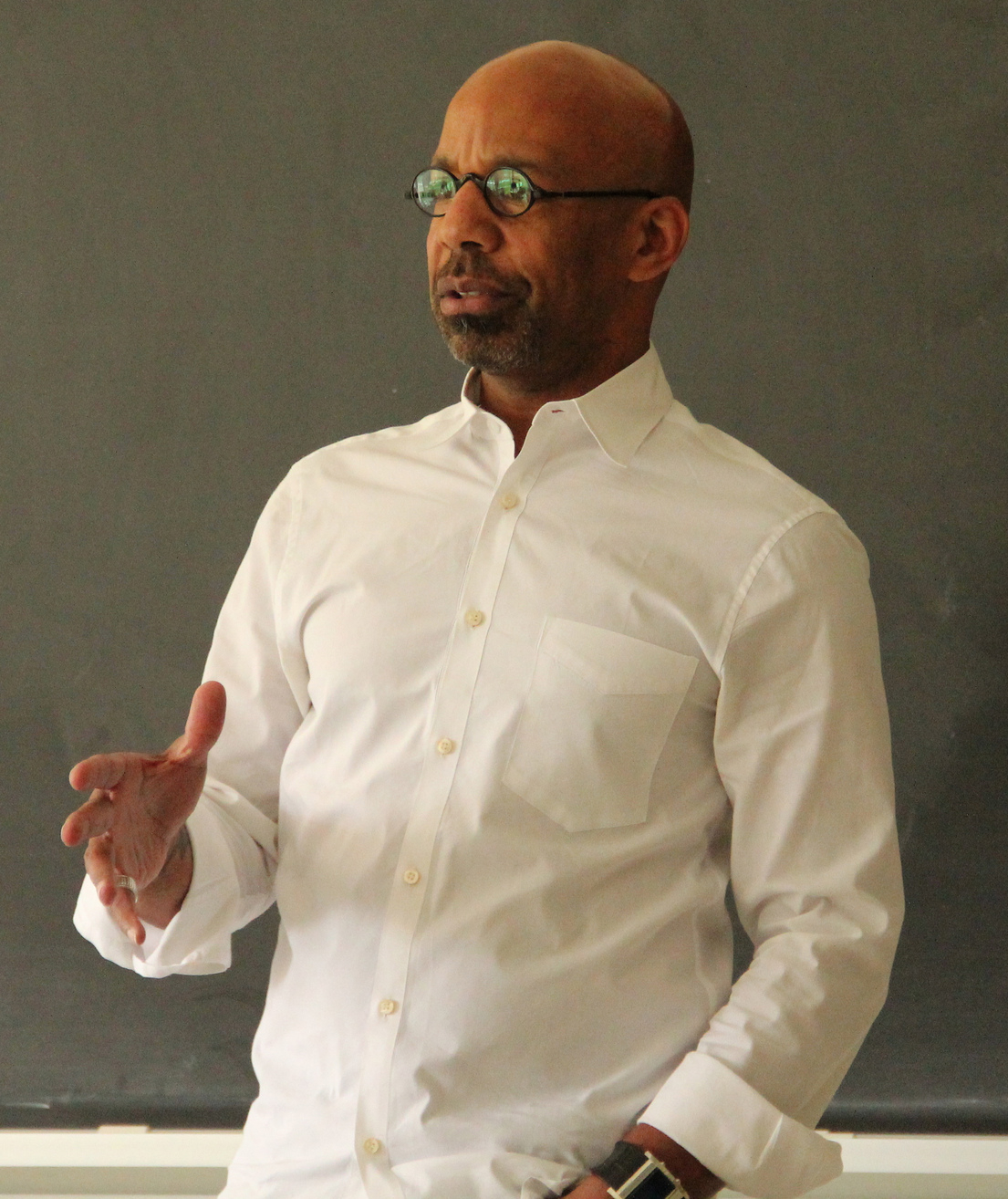 Kevin Blackistone is a teacher at the University of Maryland, a frequent panelist of ESPN's Around the Horn, including other jobs.